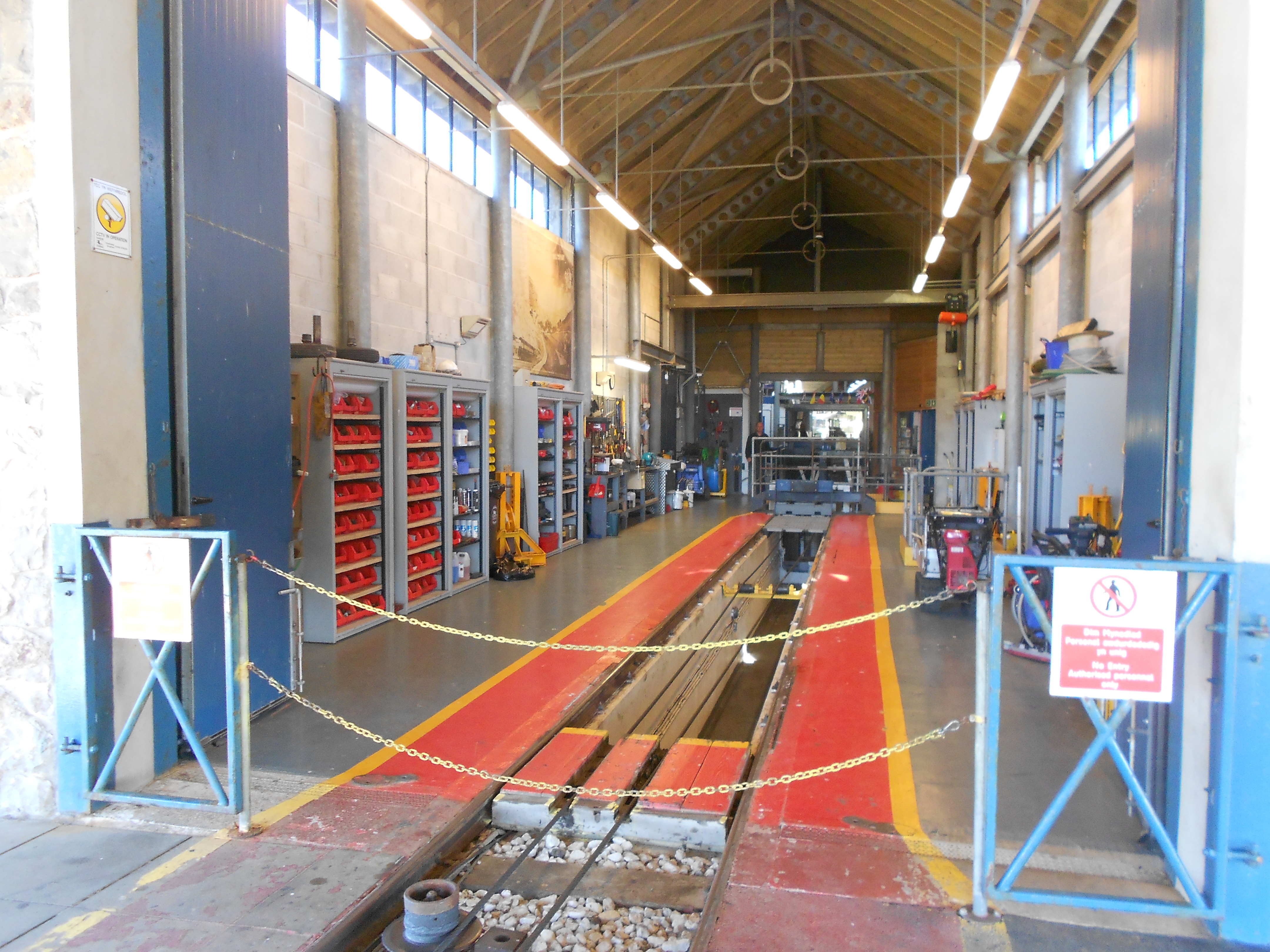 One of the two engineering bays in the Halfway maintenance depot of the Great Orme Tramway, north Wales.